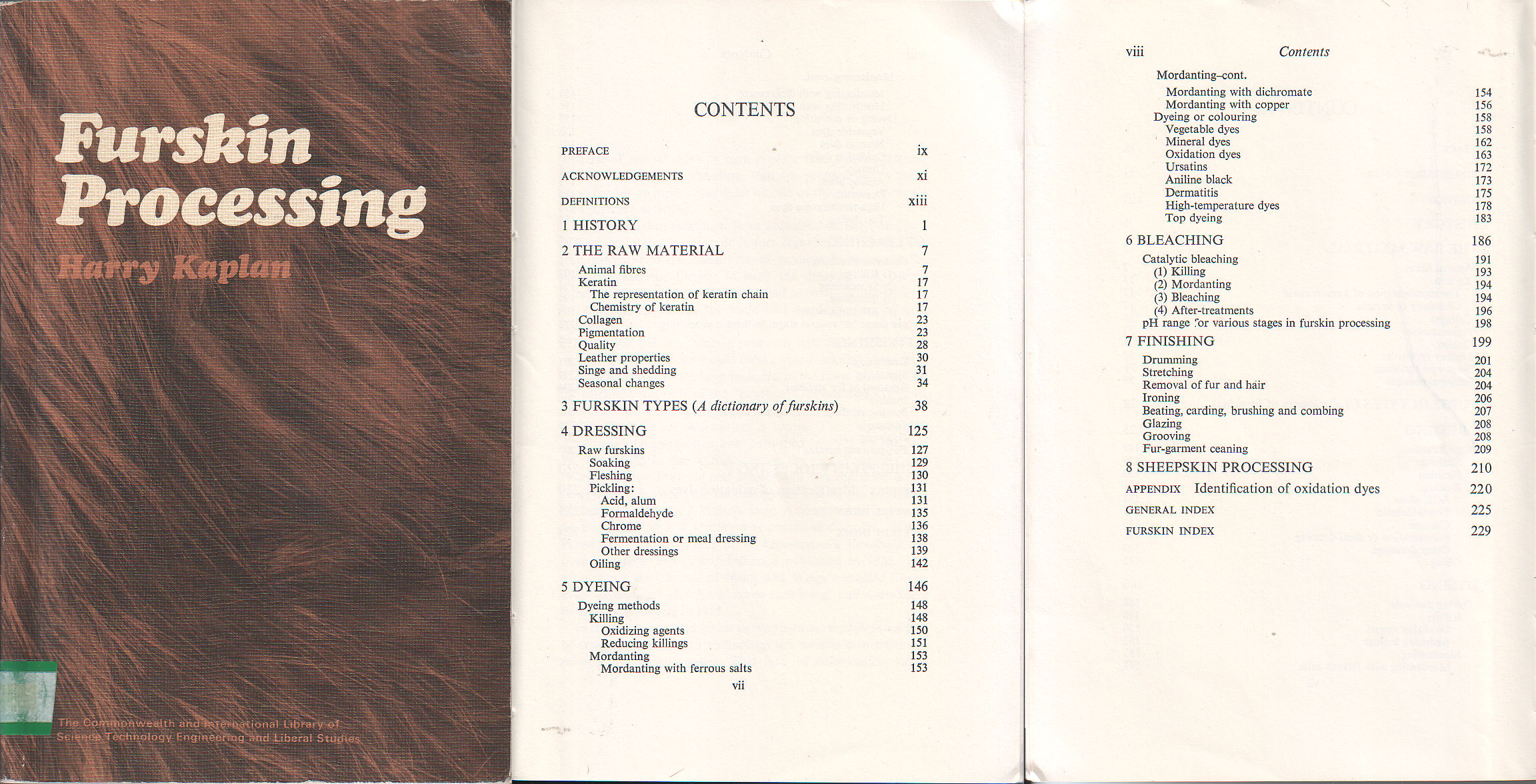 Harry Kaplan: Furskin Processing, Harry Kaplan. 1971. Book cover and table of contents. Pergamon Press, Oxford a. o., first edition Flexicover edition, 231 pages